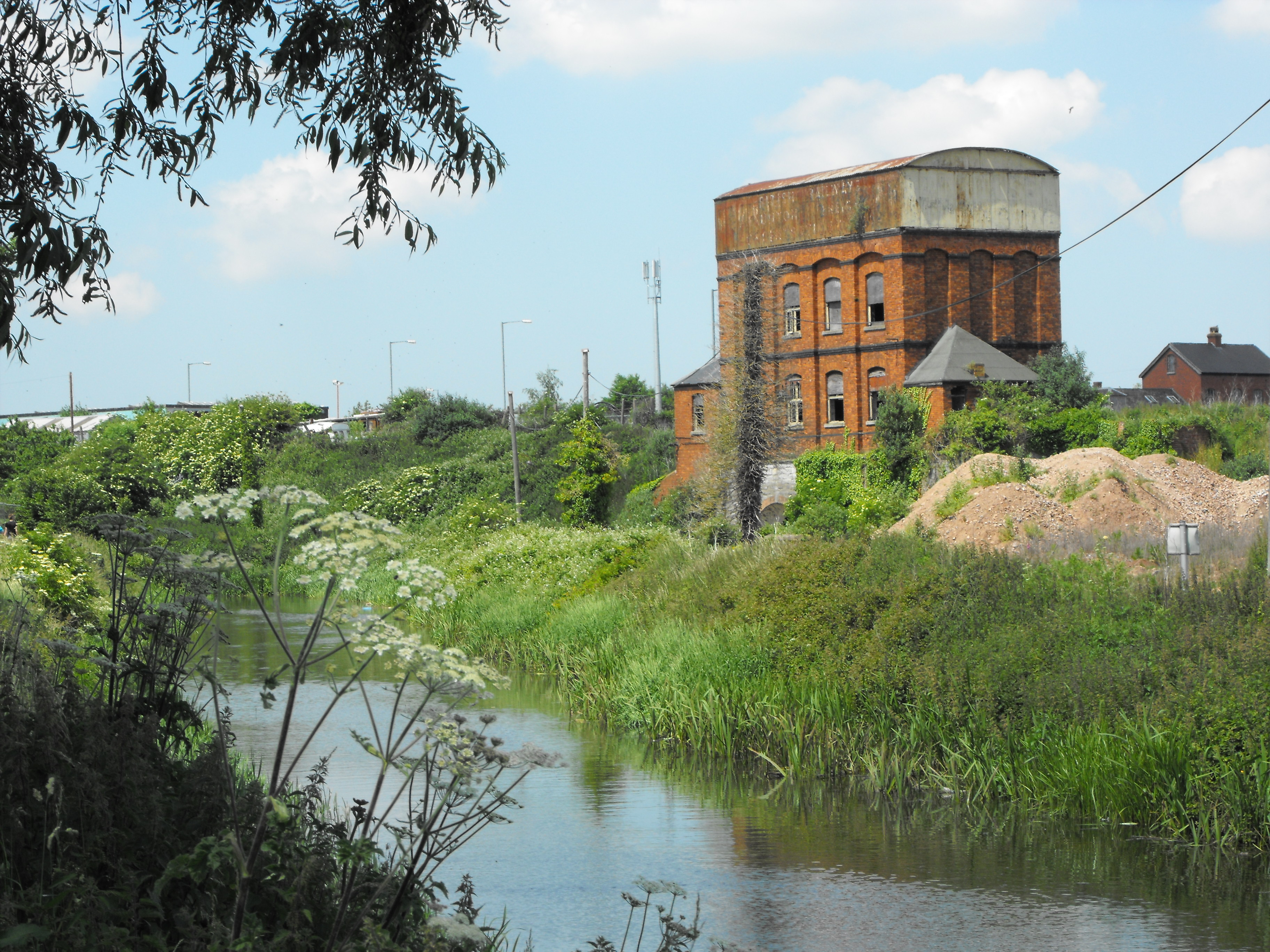 Bridgwater - Taunton Canal at its end in Yaunton, near the connection to the Thone river